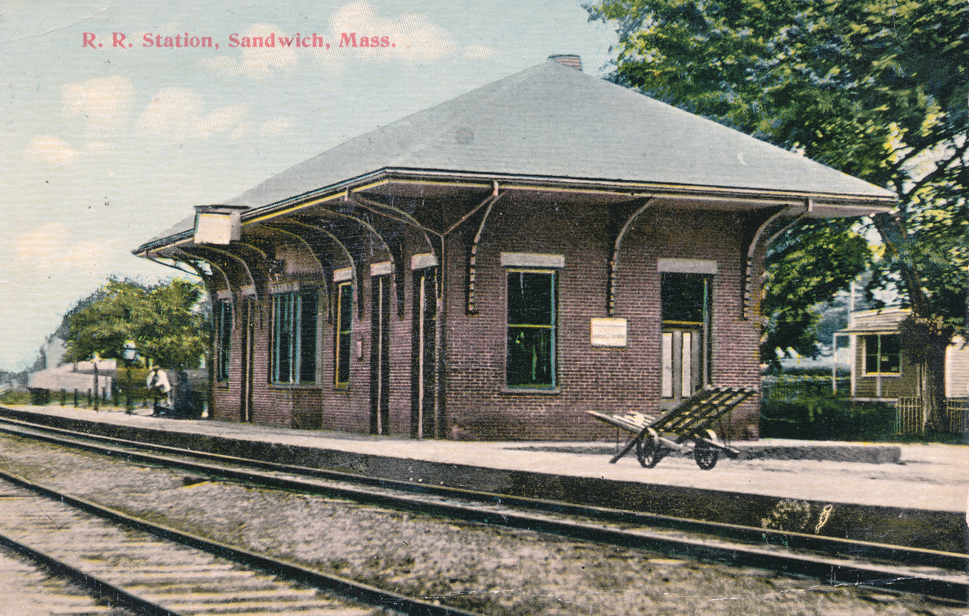 An early postcard showing the former Sandwich, Massachusetts train station on Cape Cod.